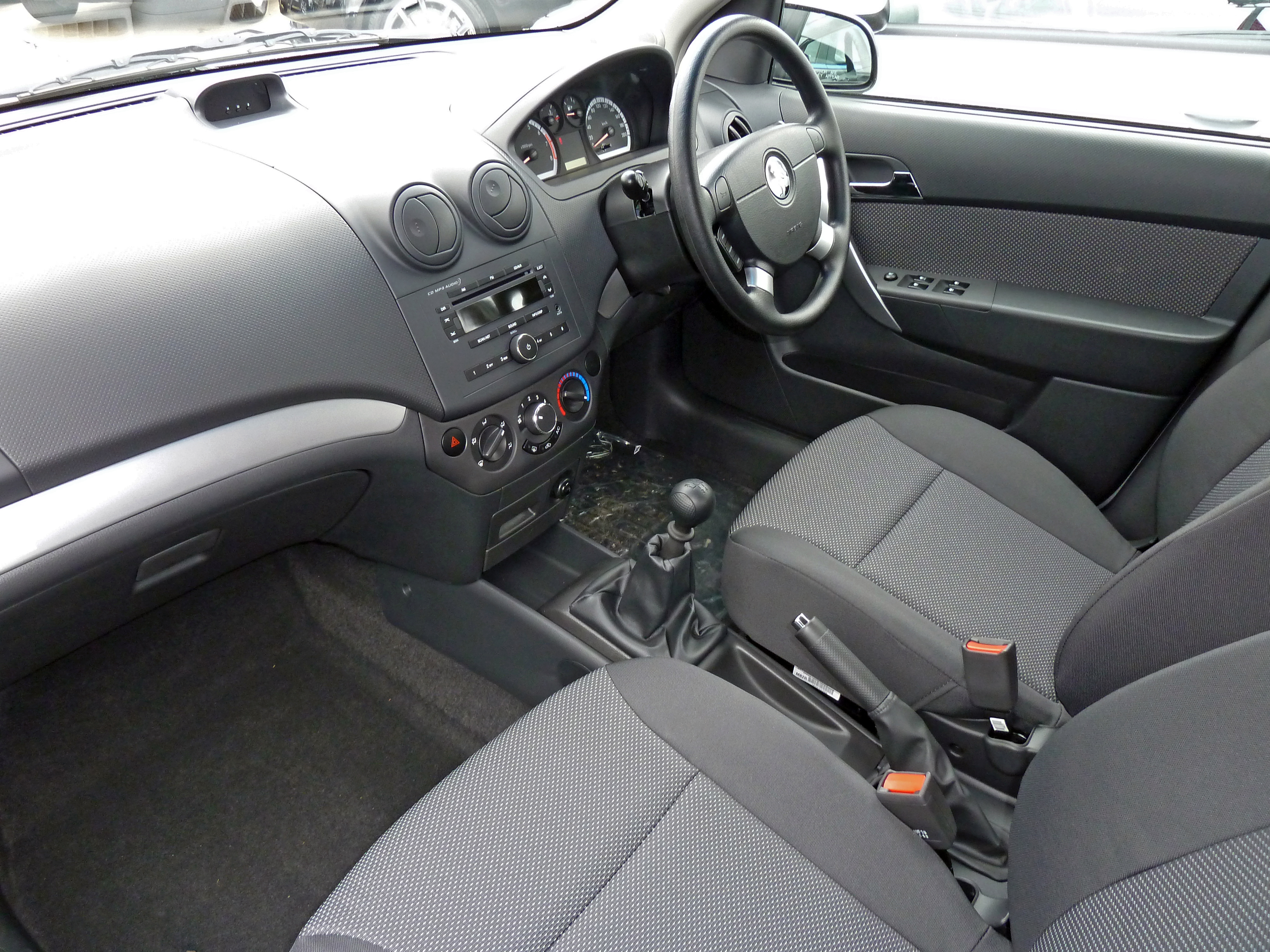 2010 Holden Barina (TK MY10) sedan. Photographed at Suttons Holden, Chullora, New South Wales, Australia.